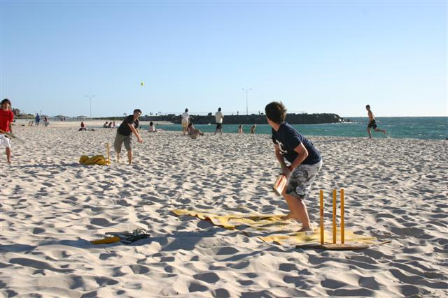 Australians playing beach cricket at Cottlesloe Beach.